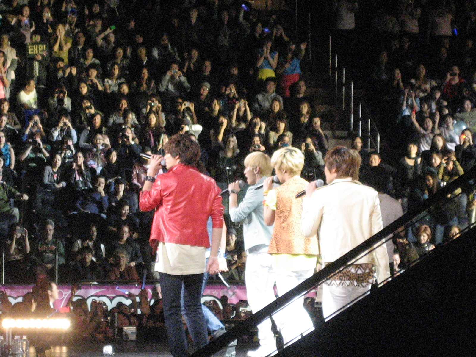 SHINee performs "Replay" at the SMTOWN Live World Tour in NY on Madison Square Garden in october 23, 2011.